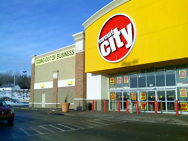 A photo taken by myself outside of liquidating Circuit City 3746, Johnstown, PA on January 23, 2009. Circuit City announced it's liquidation of the entire company in the United States and layoff of all 34,000 US employees on Friday January 16, 2009 ending 60 years of operations.